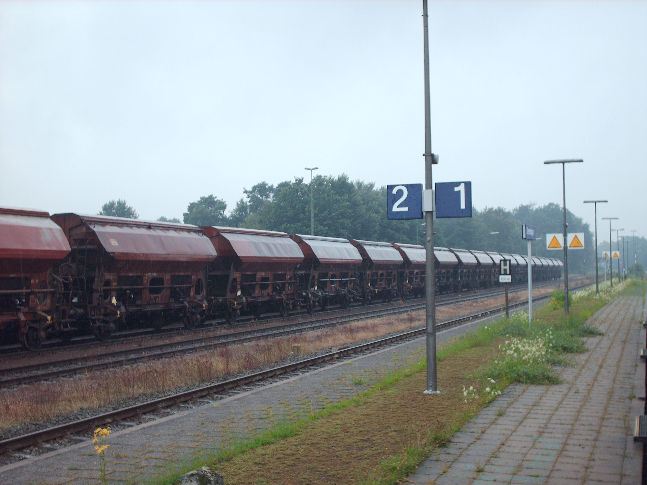 Sennelager station, Paderborn, Germany check usage